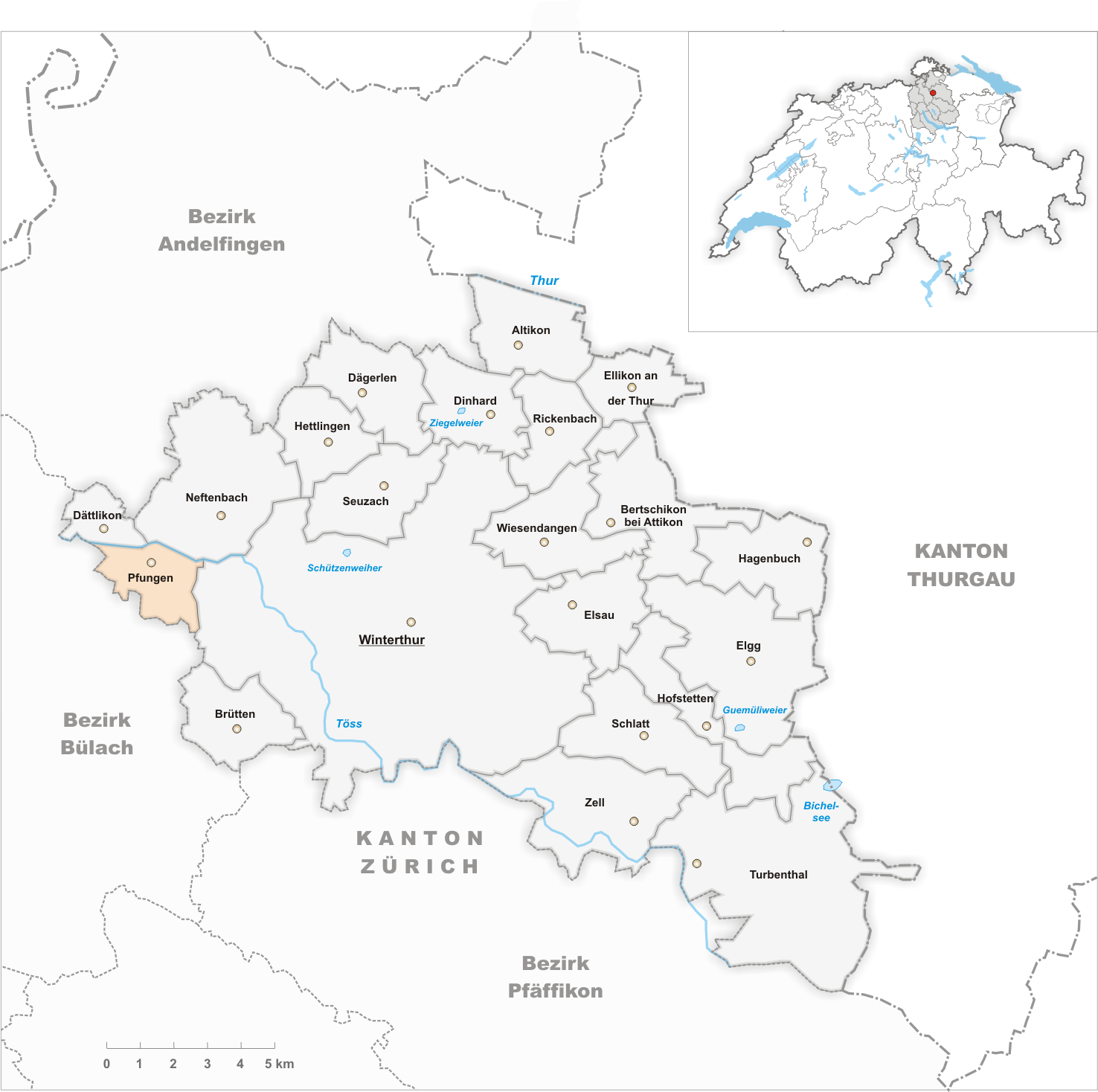 Municipality Pfungen